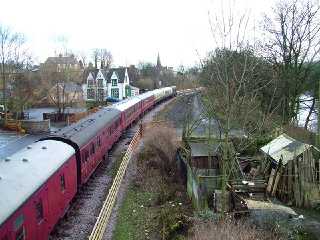 Frosterley Station and Xmas Special. One of the few trains run by the Weardale Railway before it went into administration in 2005.